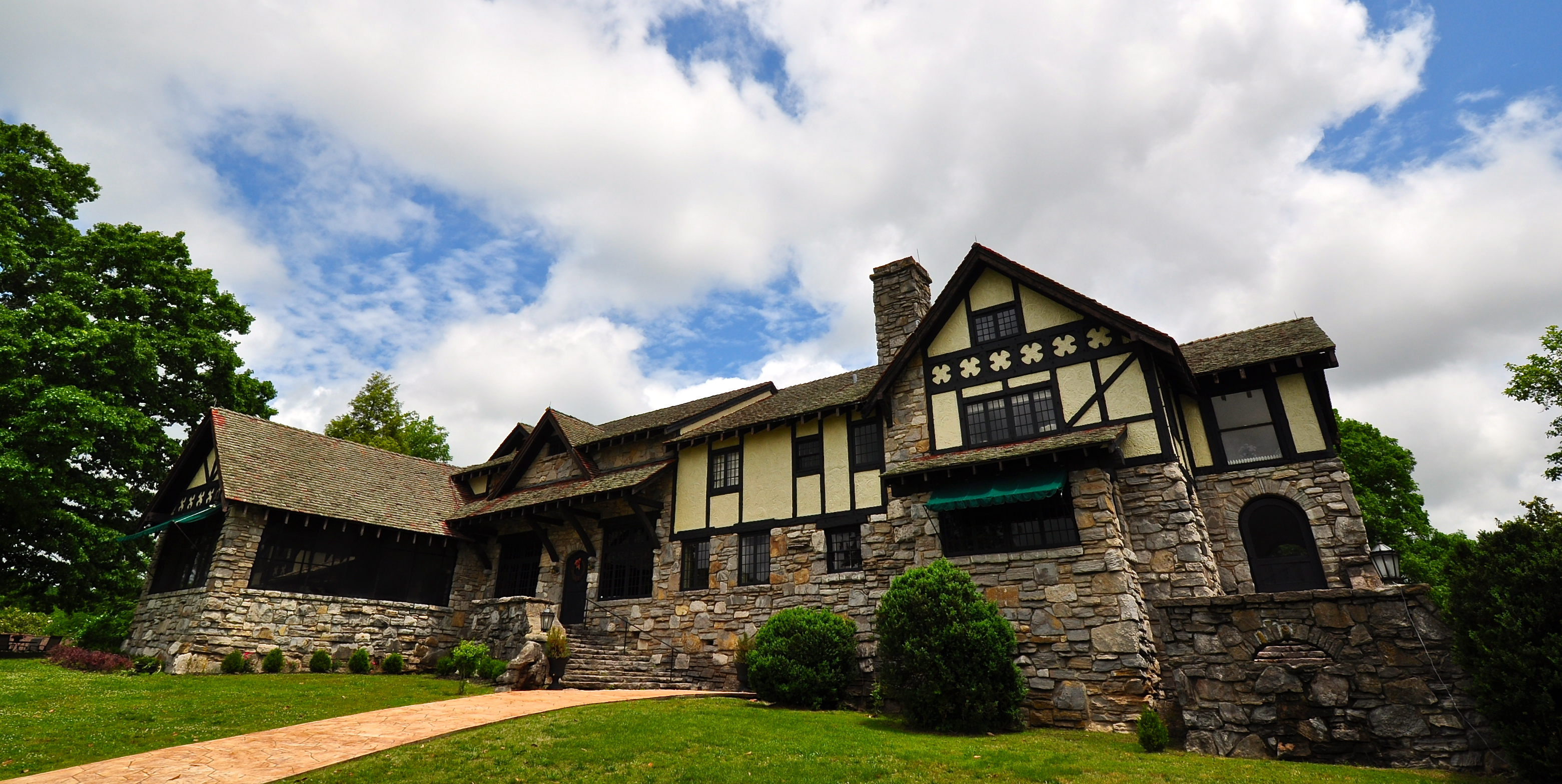 Located north of Pulaski, Giles County, Tennessee. NRHP #84003537, listed September 27, 1984.